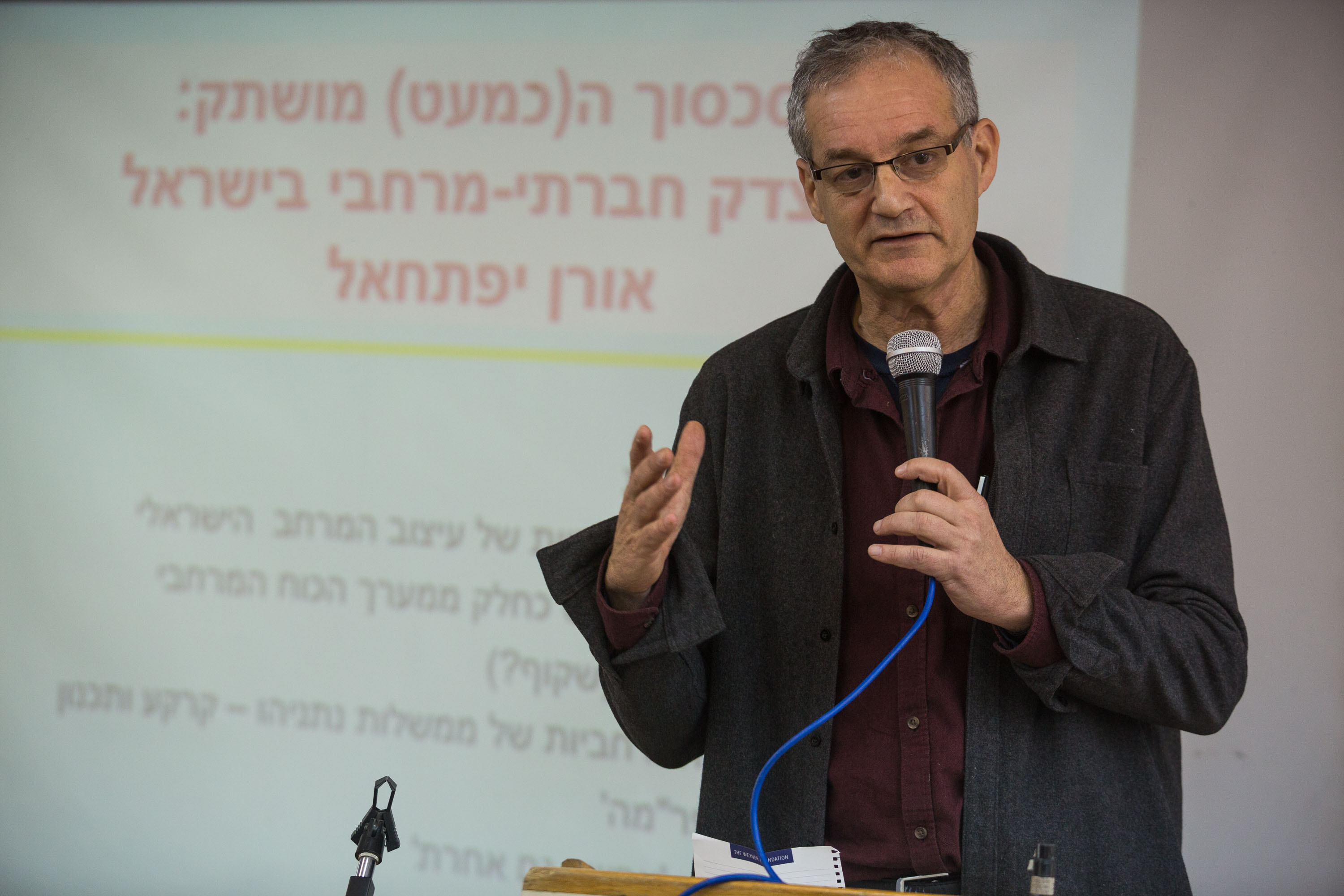 Yiftachel speaks in social lecture tel aviv